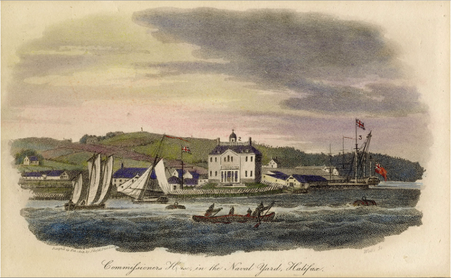 Inscribed in the plate, l.l.: Publish'd 29 Feb. 1804, by J. Gold, Shoe Lane.; l.r.: Wells Sc.; l.c.: Commissioners House, in the Naval Yard, Halifax. Published in The Naval Chronicle, London, February 1804, opp. p. 141.